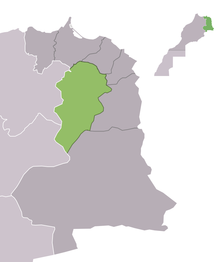 Taourirt Province, Oriental Region, Morocco